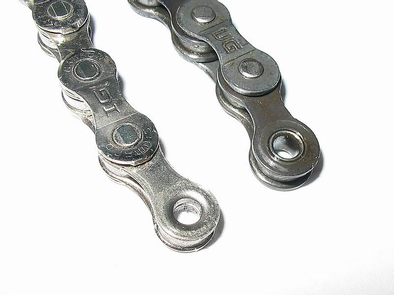 Shimano bushless and with bushings chains